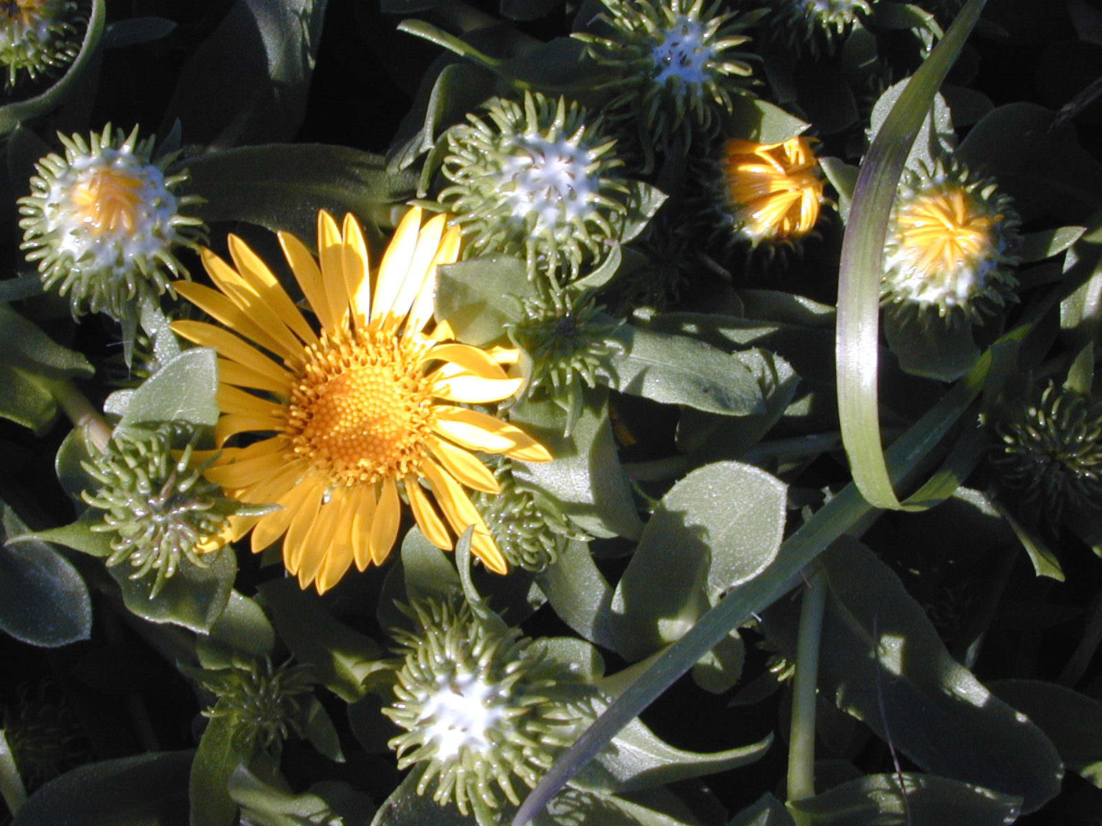 Grindelia stricta, Gluey buds. I never saw buds like these before. Found on the top of a bluff overlooking the ocean at the Half Moon Bay golf course. San Mateo County, California. (Calflora)